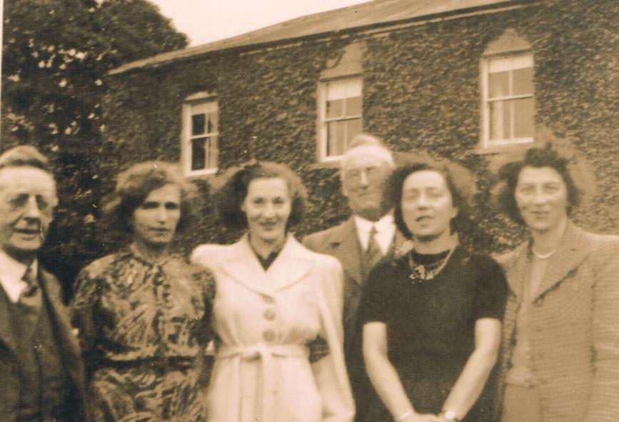 A frequent guest at the house in the 1950s was J.R.R. Tolkien who was inspired by the Burren landscape.